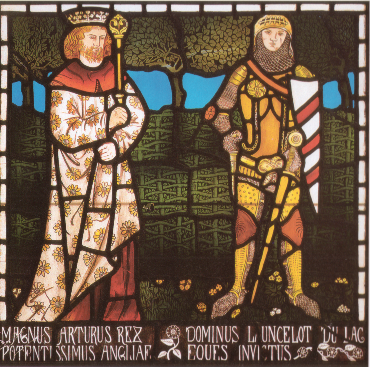 King Arthur and Sir Lancelot, one of a set of 13 stained glass panels commissioned from Morris, Marshall, Faulkner & Co. by Walter Dunlop for Harden Grange near Bingley Yorkshire. This is one of four panels designed by Morris. Other panels in the series were designed by Arthur Hughes, Valentine Prinsep, Dante Gabriel Rossetti, Sir Edward Burne-Jones, and Ford Madox Brown. Bradford Art Gallery.